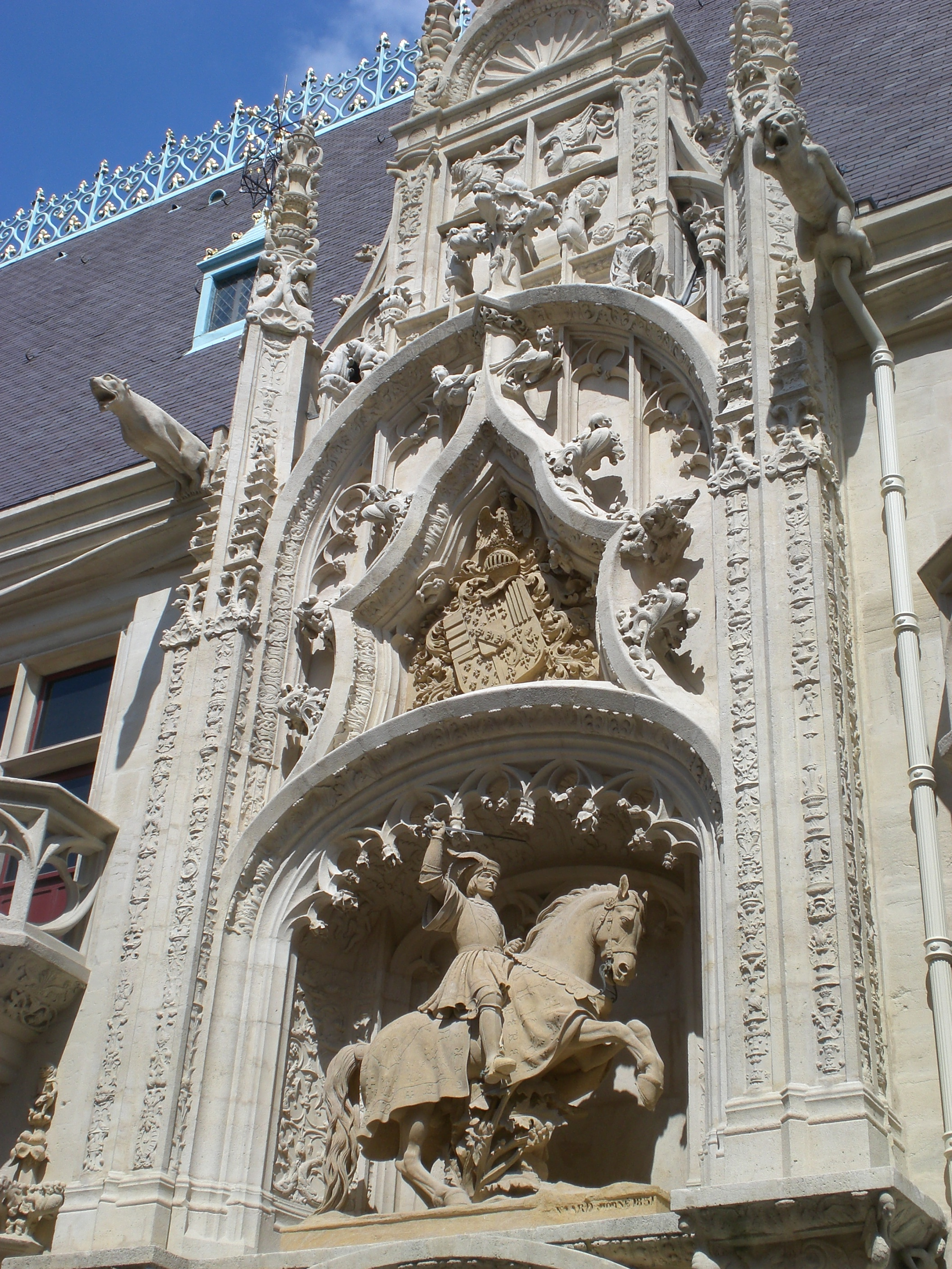 Nancy, Palace of Dukes, 1502-17